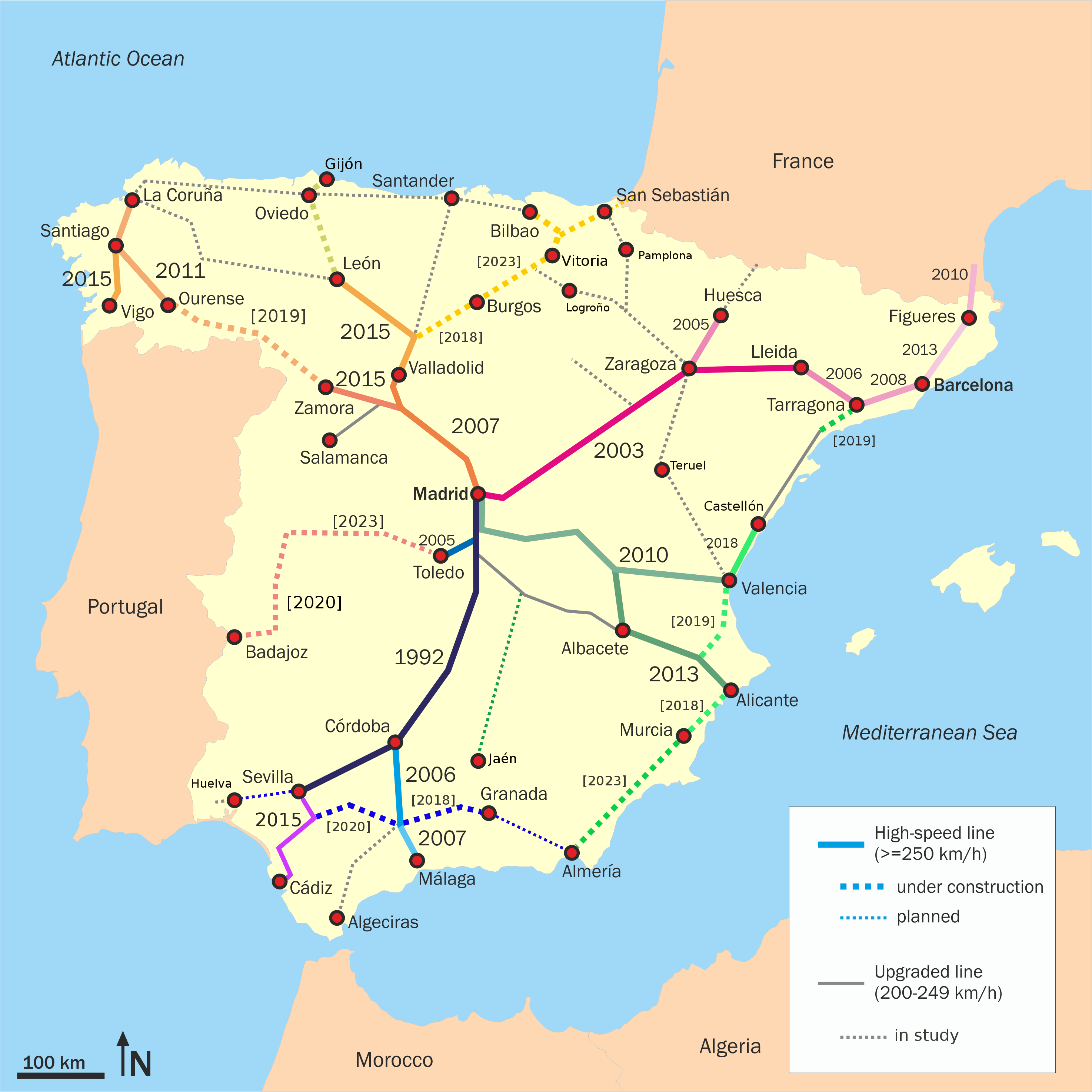 Map of the AVE lines (newly built and upgraded) in Spain